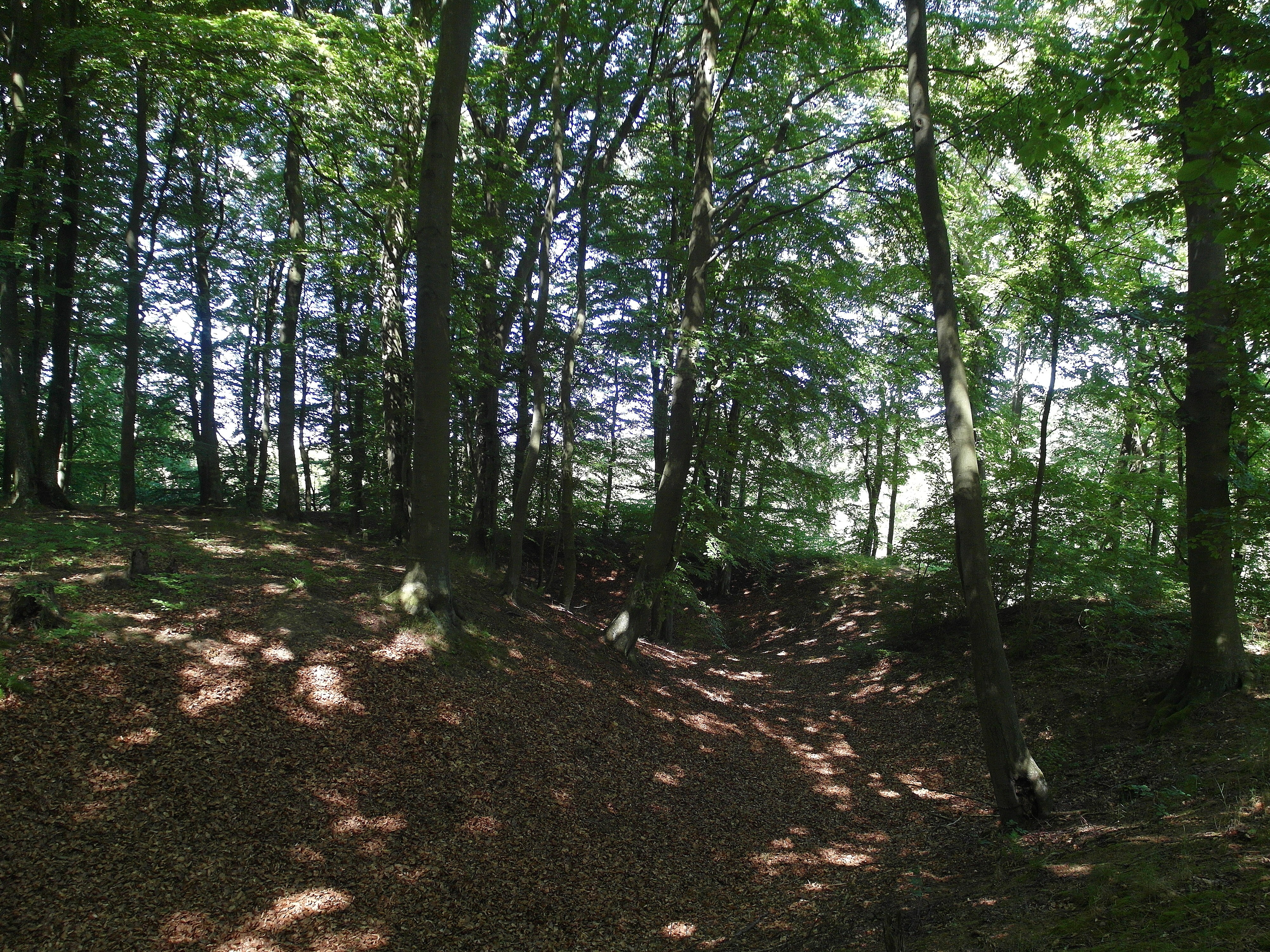 Slavic Hill fort in Gać Leśna, Poland (VIII-X Century AD)